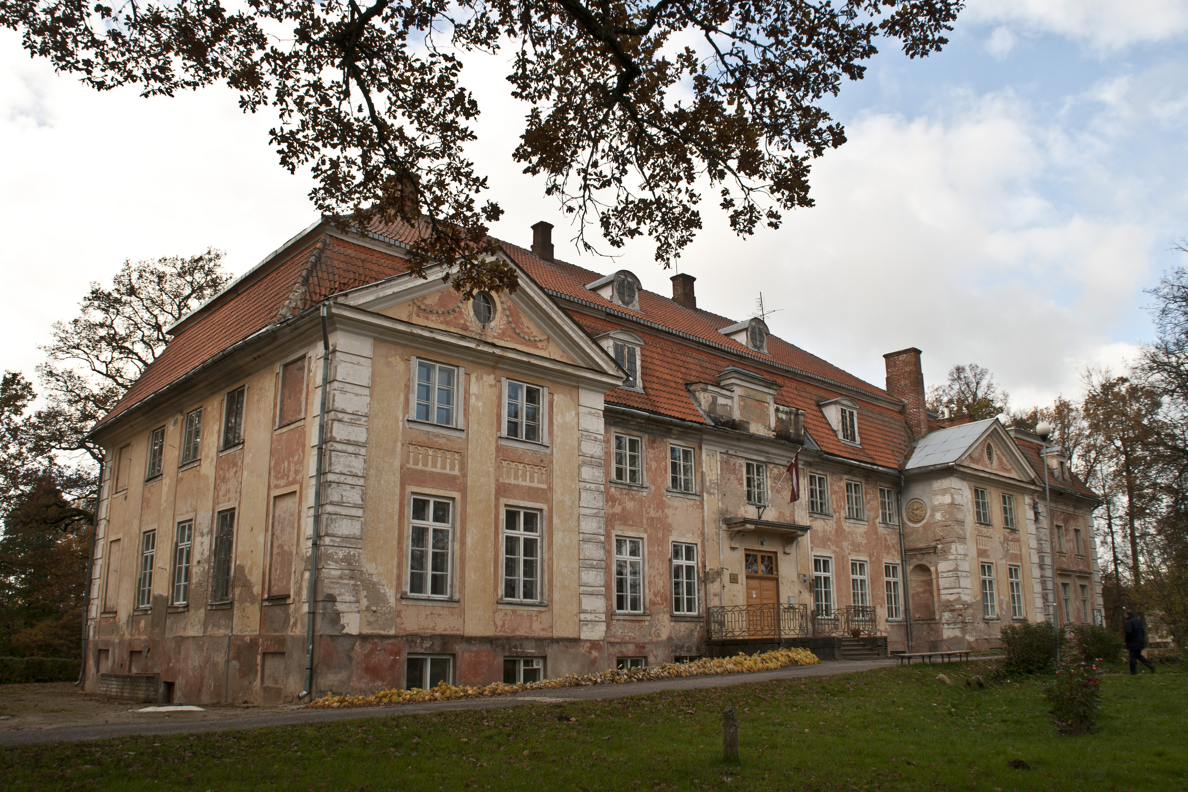 Ozolmuiža ManorLatviešu: Ozolmuižas kungu māja